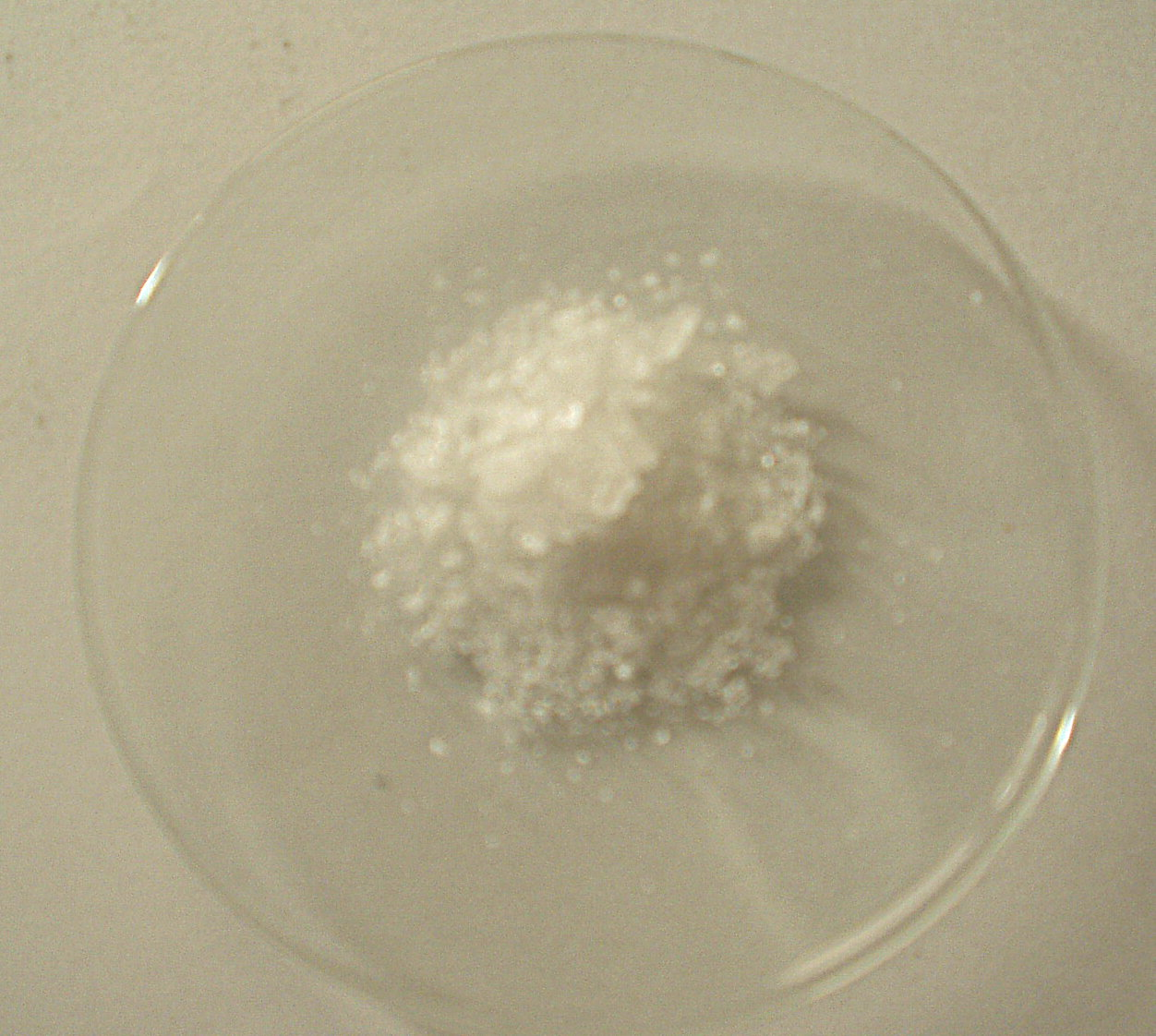 A photo of some solid silver nitrate, it's an own work. Created on 18th August 2006. I'm the author of this file.